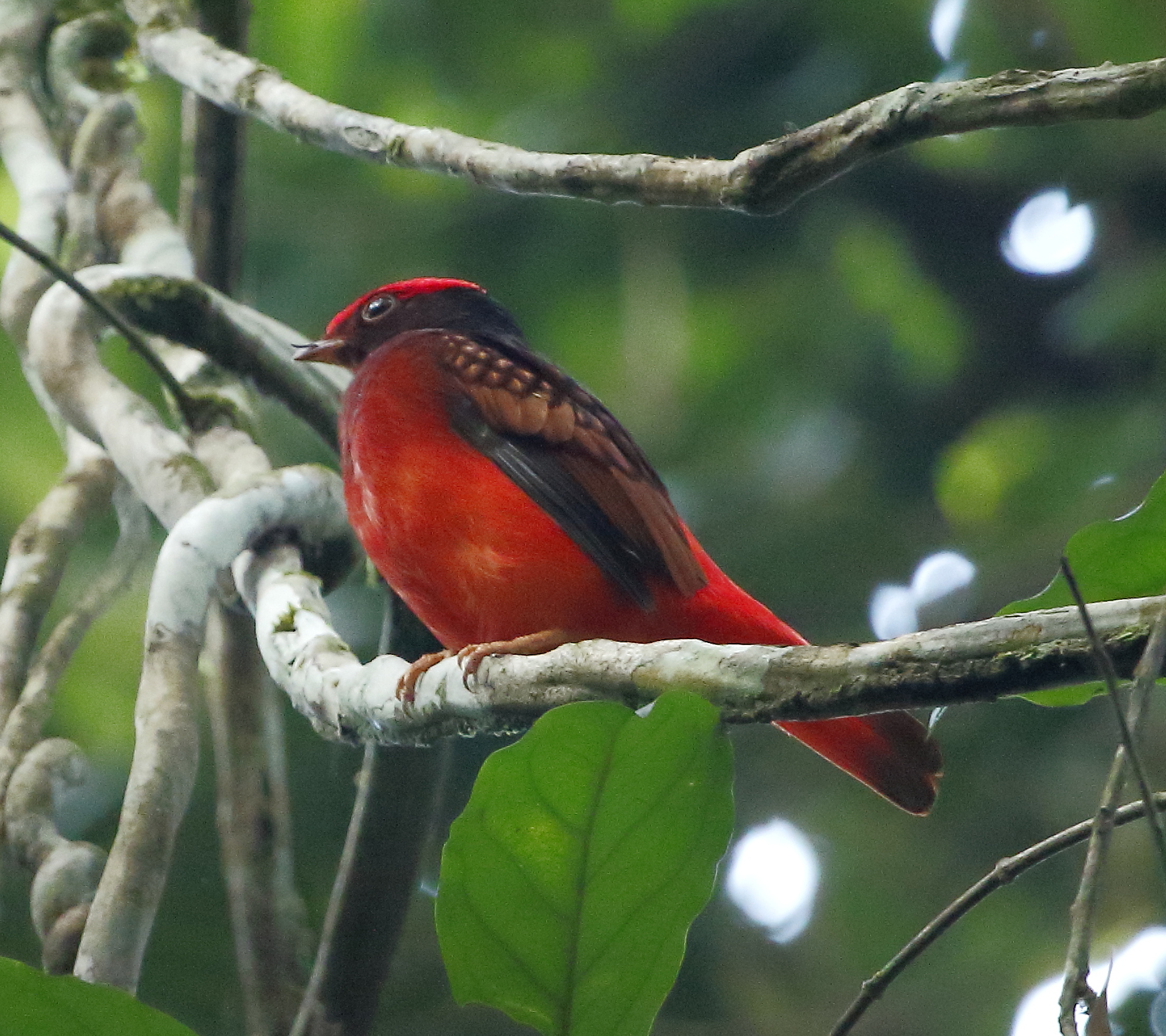 Guianan red cotinga (male) at Carajás National Forest - Pará - Brazil